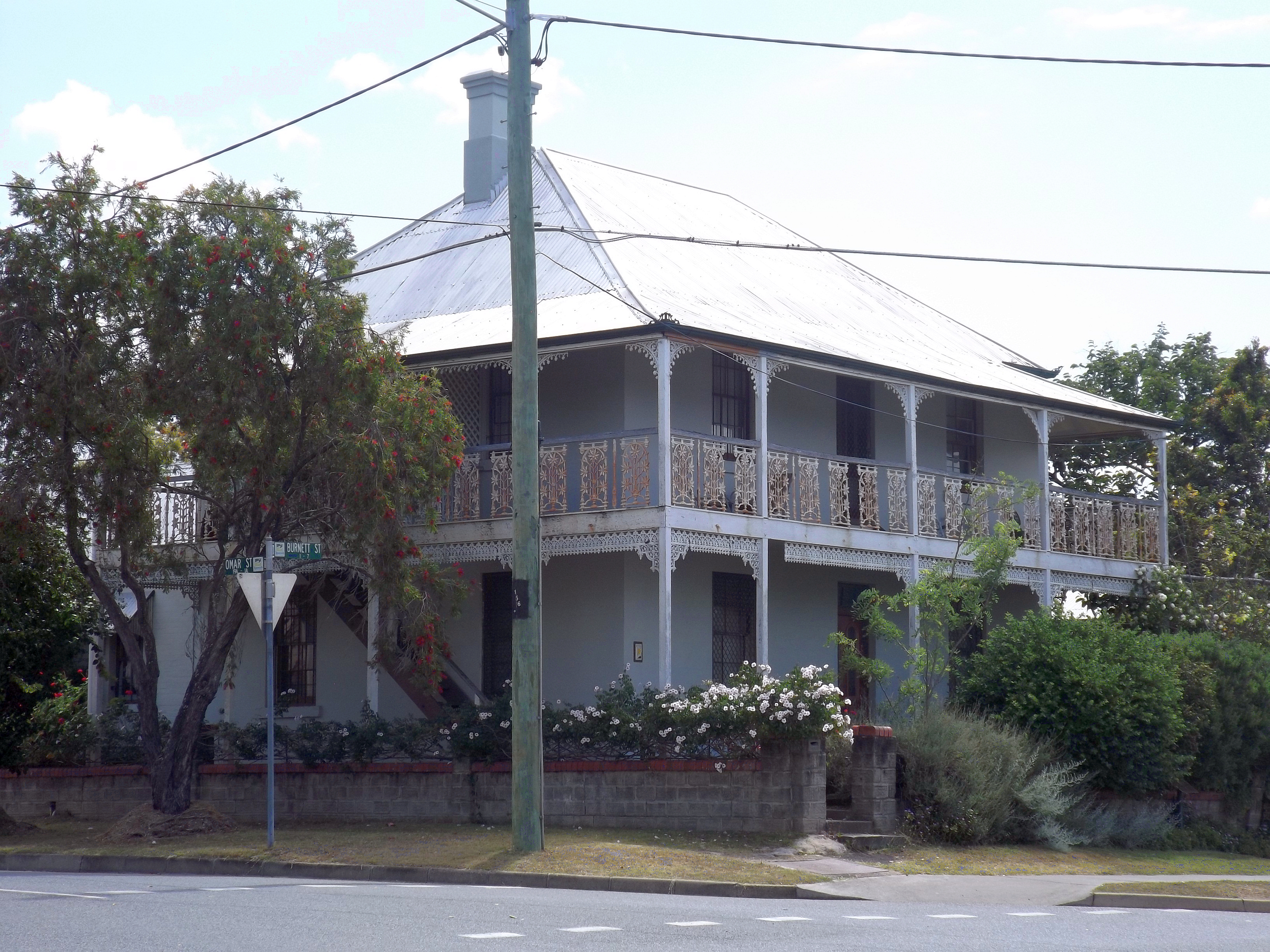 Photo of the William Berry residence at West Ipswich, Queensland, Australia.